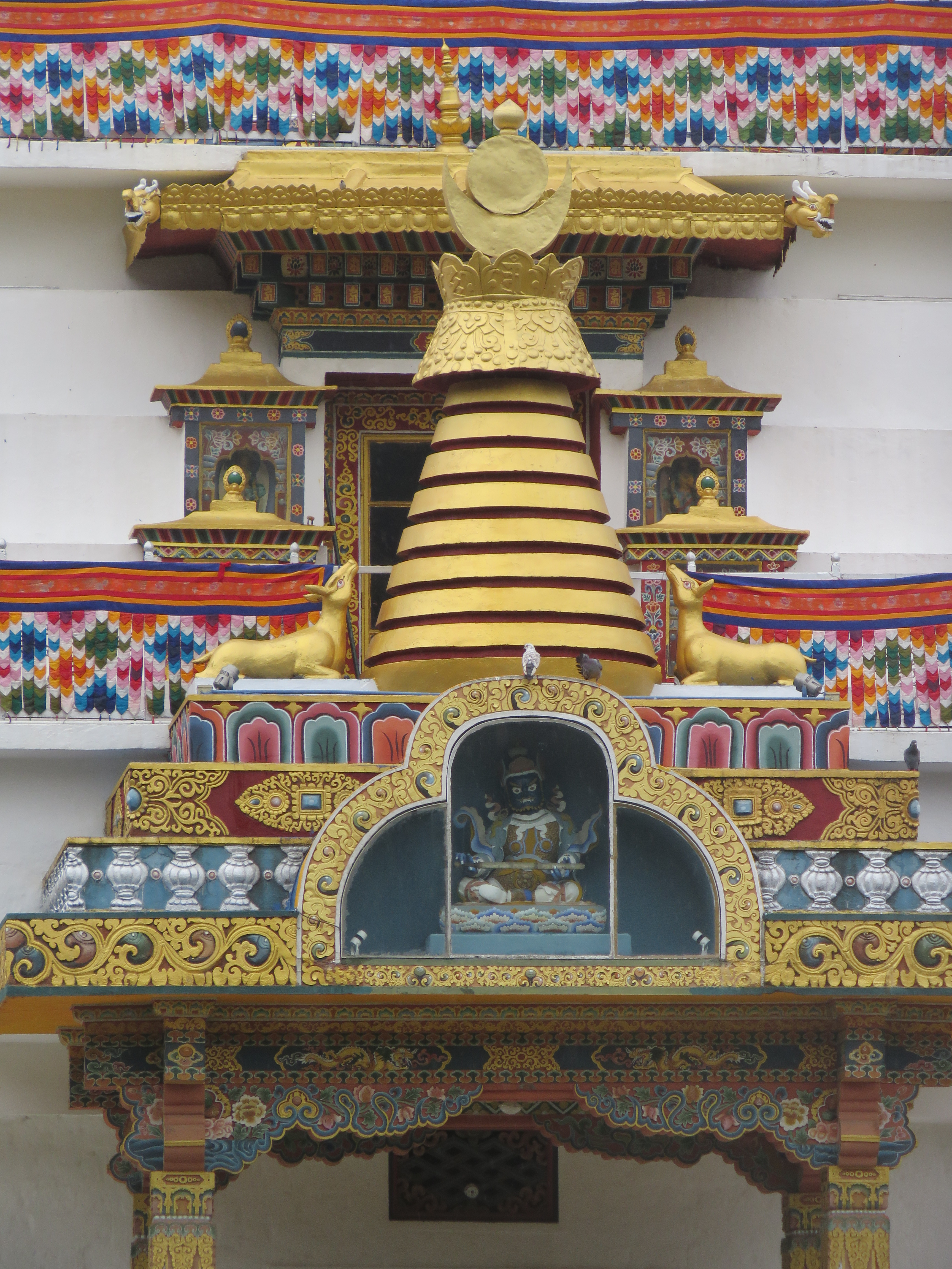 Photos from Bhutan during LGFC - Bhutan 2019